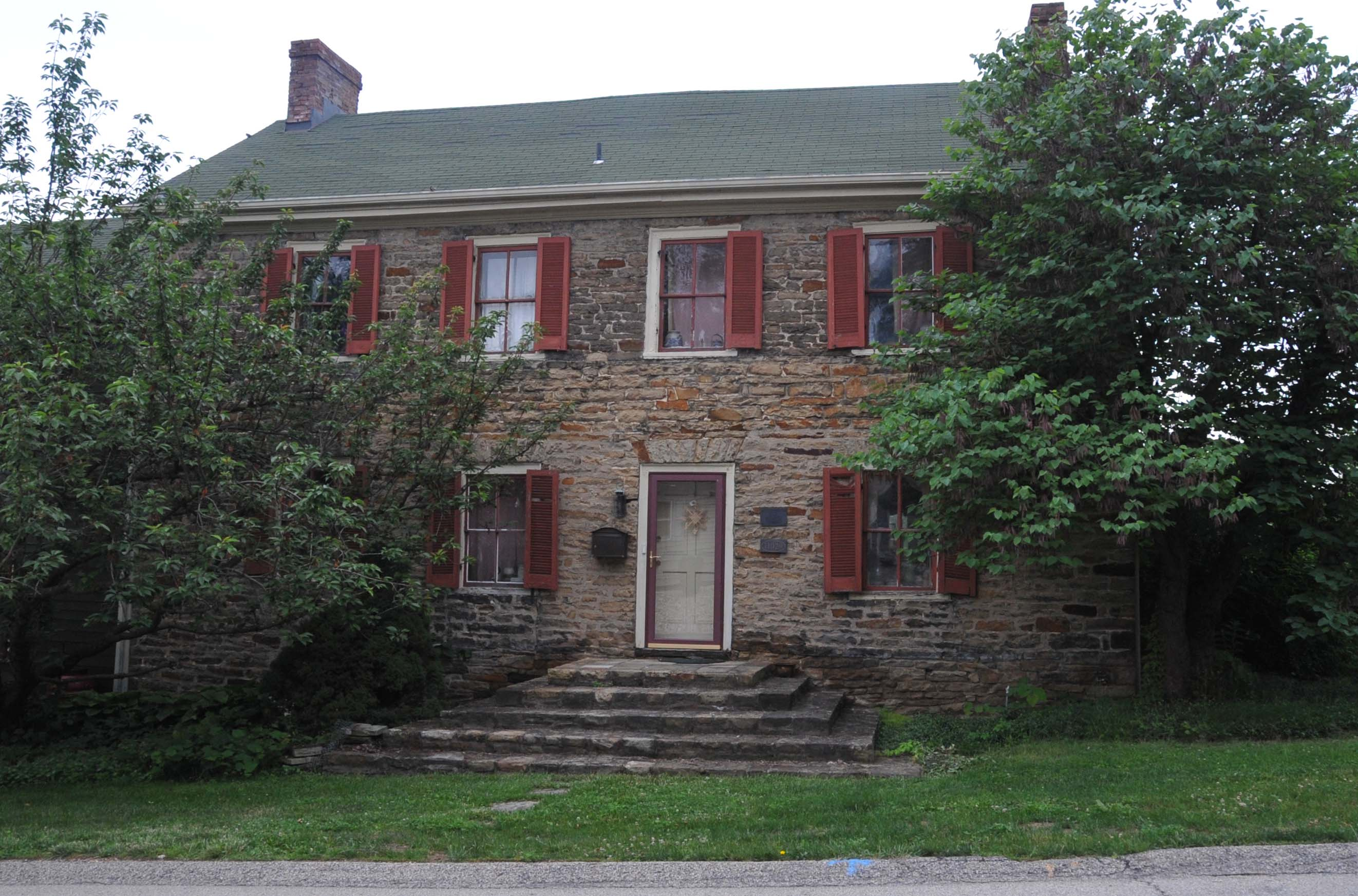 FULLERTON-SVERDUP HOUSE, WESTMORELND COUNTY. IT WAS BUILT IN 1798, AND IS A 2 1/2-STORY, FOUR BAY STONE BUILDING IN THE FEDERAL STYLE. IT HAS A 5 BAY WOOD FRAME ADDITION IN 1805. Fullerton Inn was listed on the NRHP on June 30, 1983. Located at 11029 Old Trail Road, west of Irwin 40°19′47″N 79°43′35″W in North Huntingdon Township, Westmoreland County, Pennsylvania